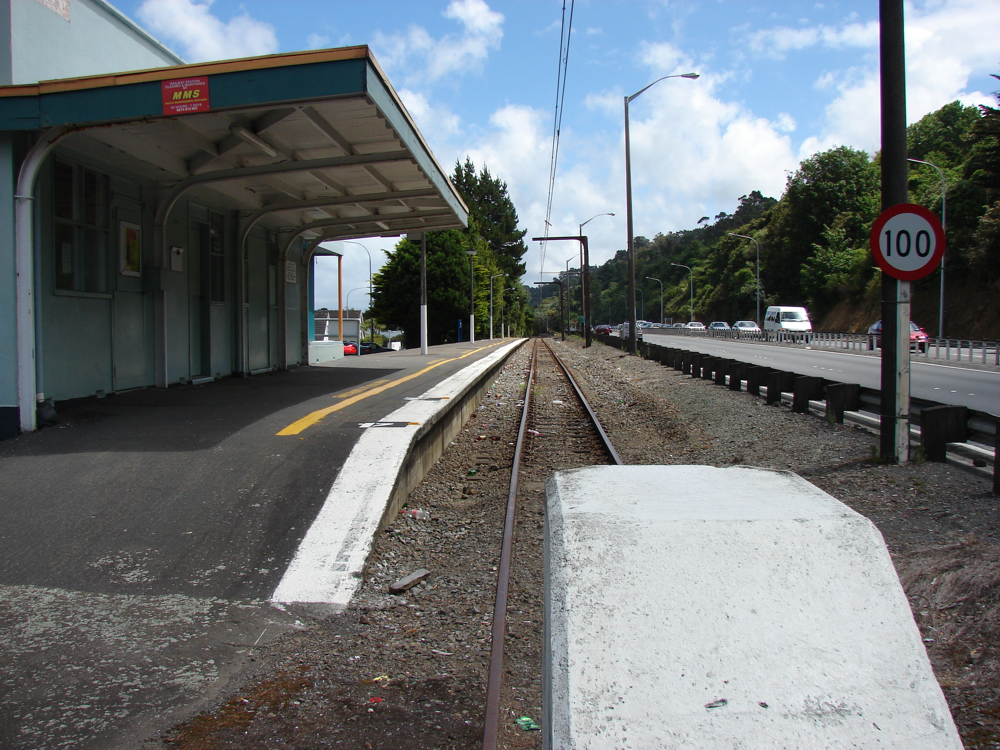 The Melling Branch terminates at Melling railway station. Photographed by Matthew25187 on 2007-12-24.